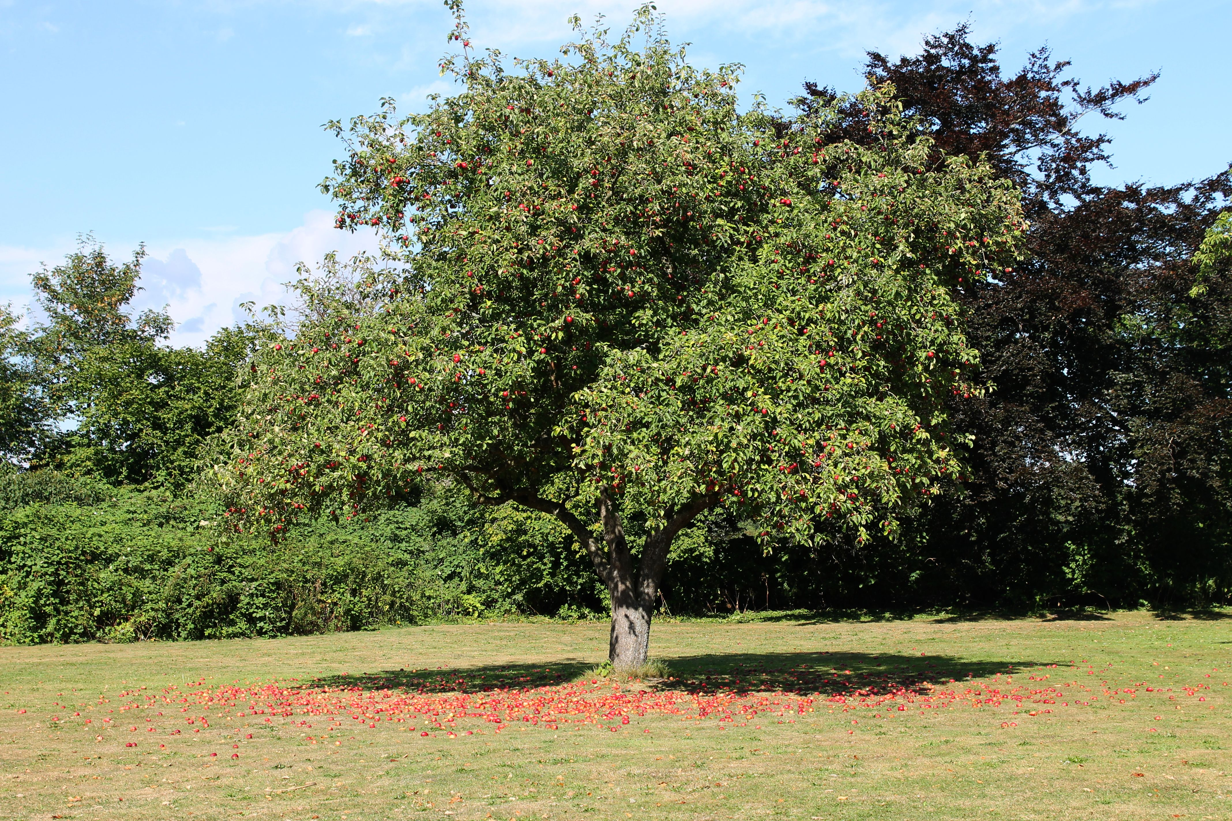 Apple tree behind the Fuglsang Kunstmuseum